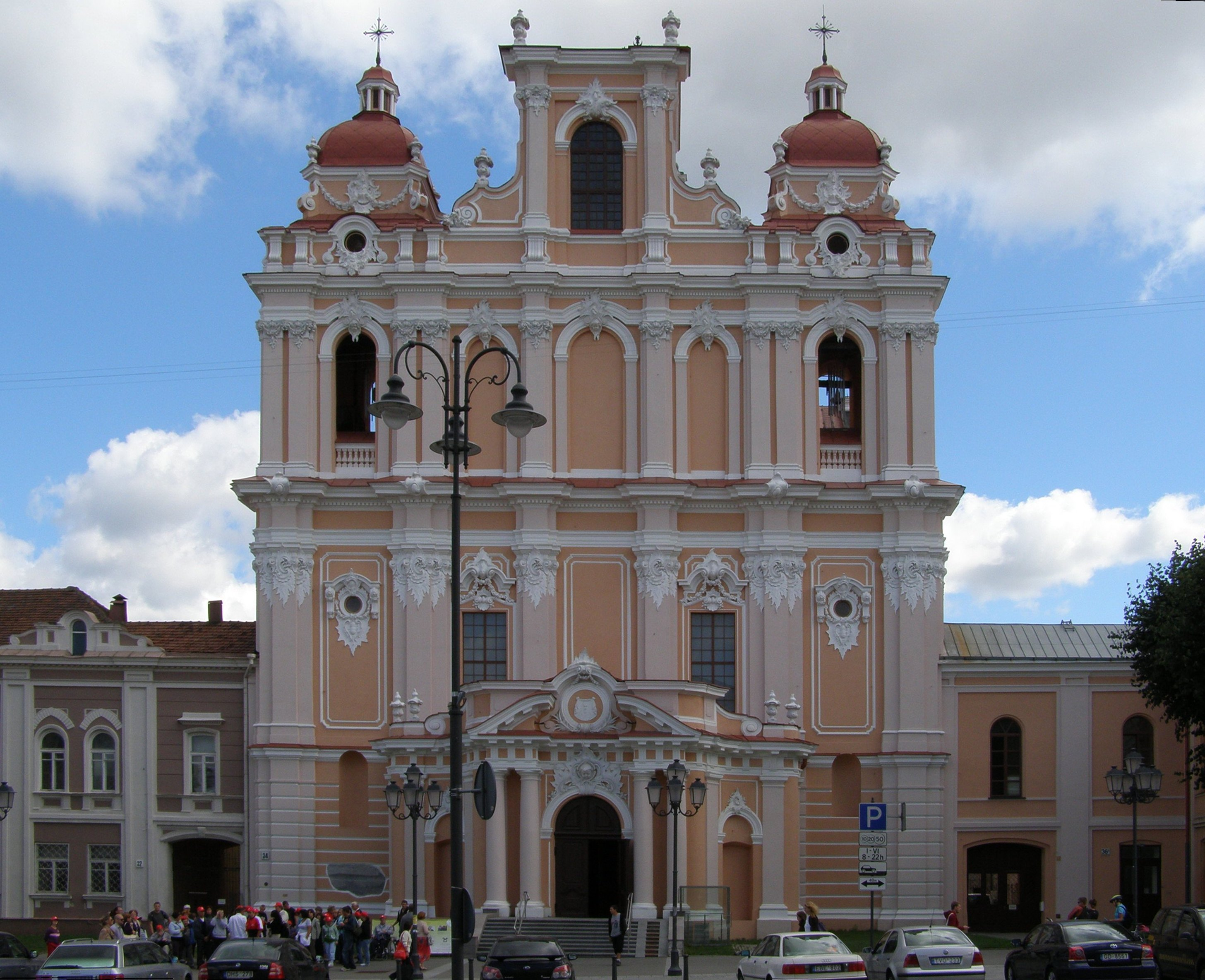 Church of St. Casimir in Vilnius